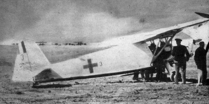 Boarding of wounded in a plane RWD 13S of Tthe White Squadron in WW2.